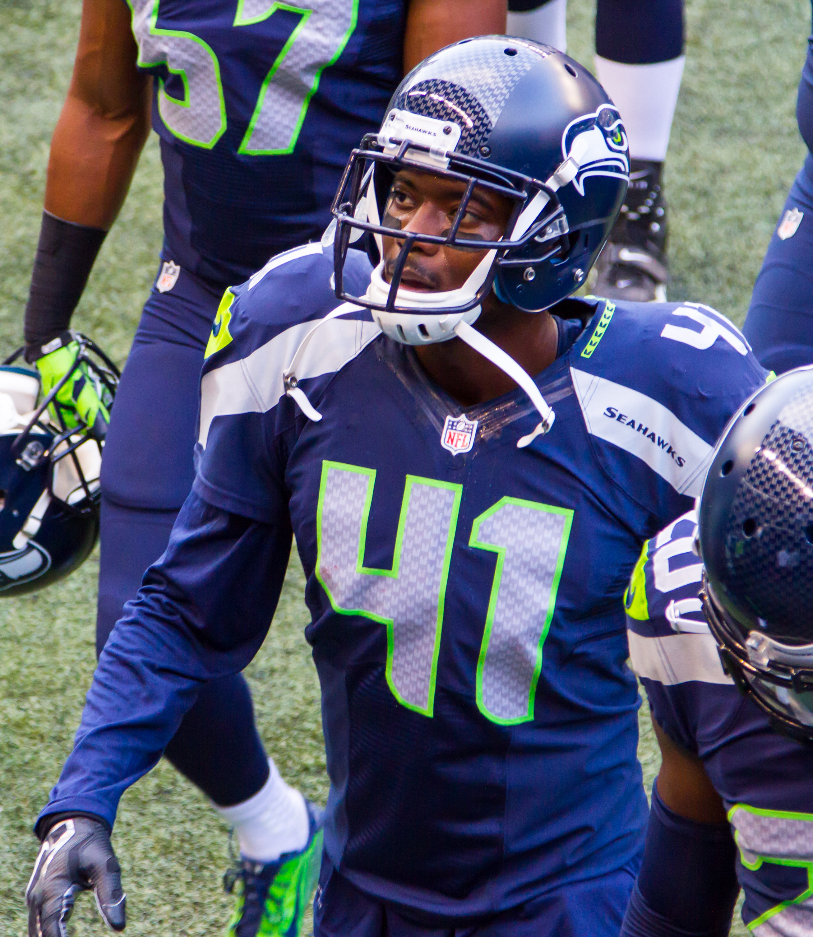 Byron Maxwell in 2014 preseason.